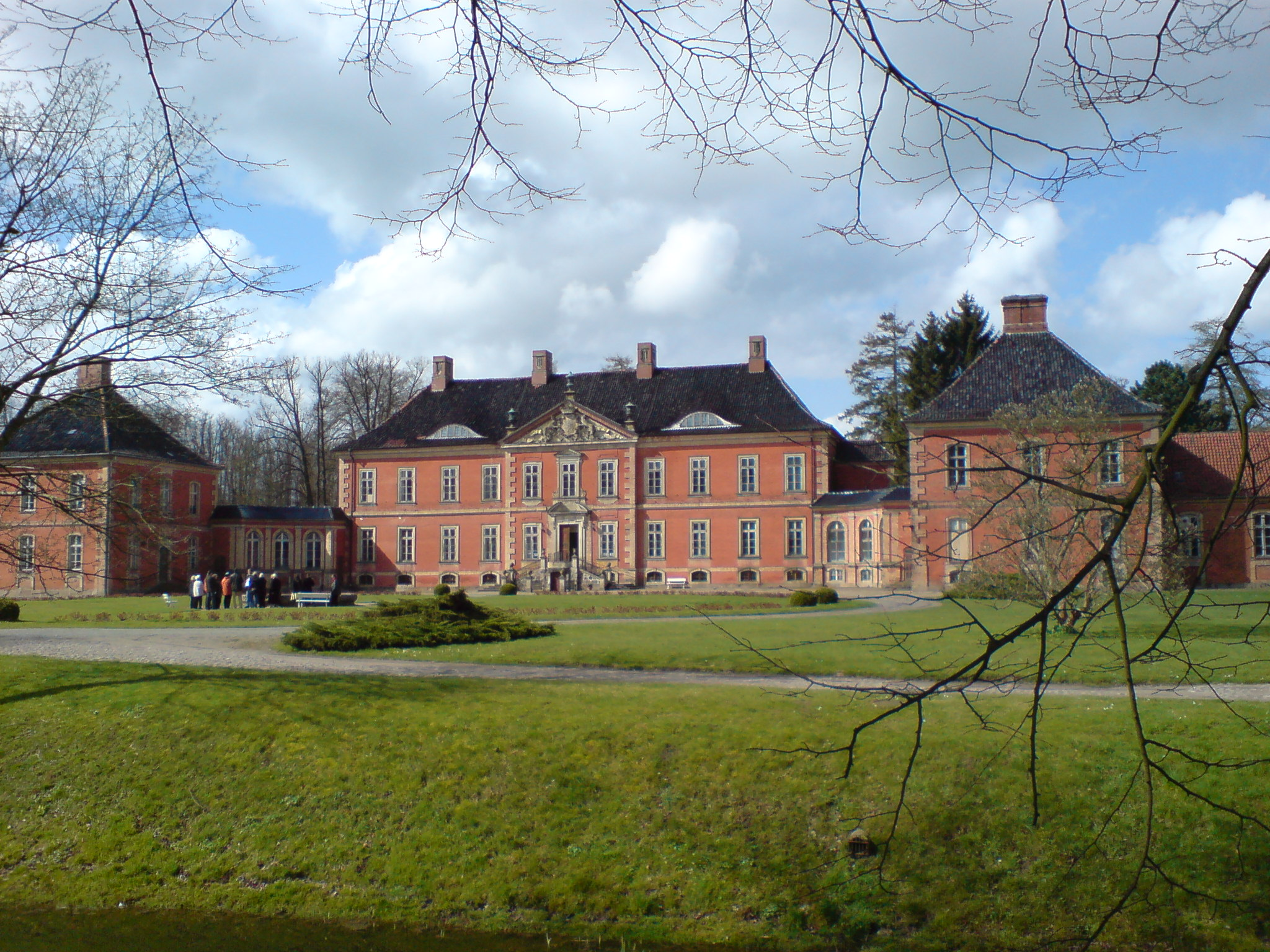 Bothmer Palace, the courtyard